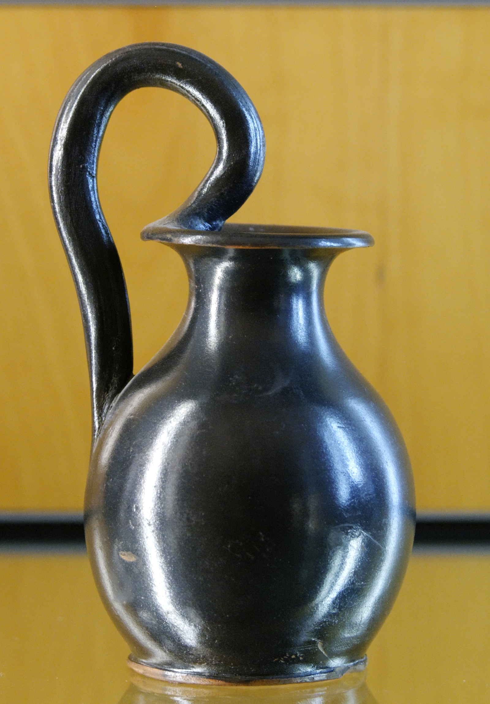 Attic black-glaze jug, 6th century BC.